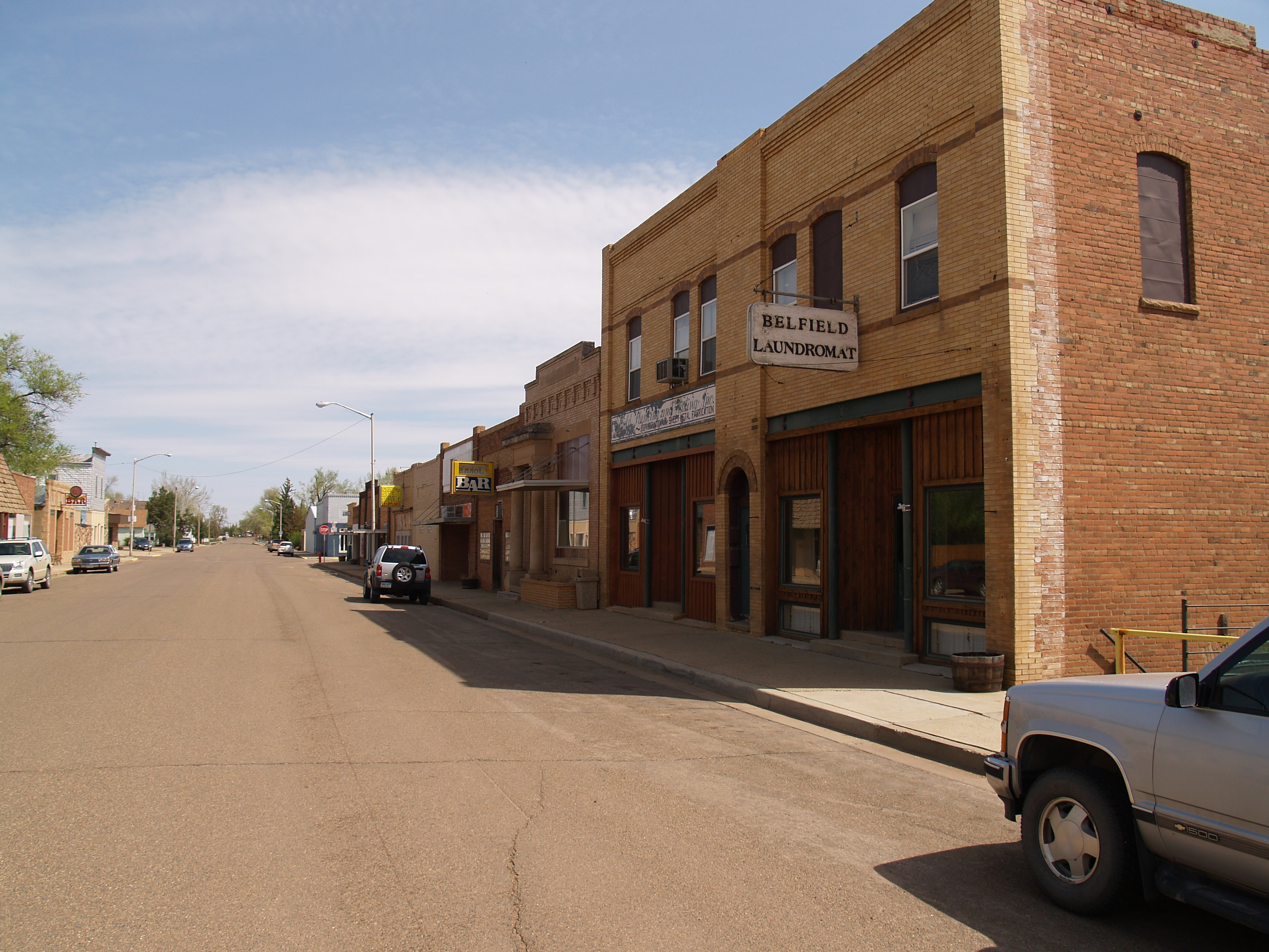 Belfied, North Dakota